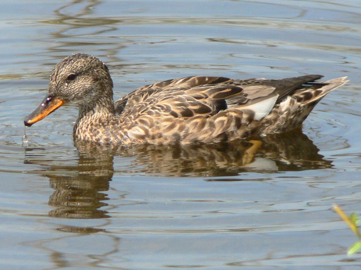 Gadwall female